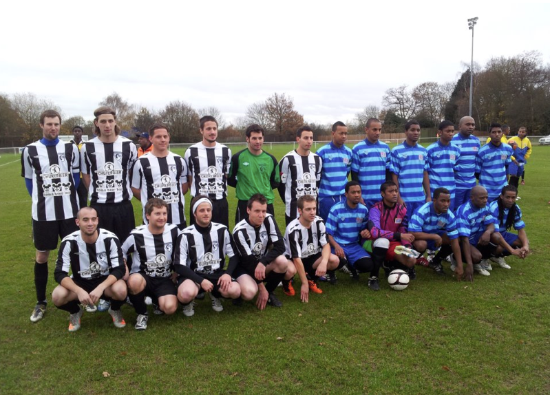 Game in London Crewly Raetia vs.Chagos